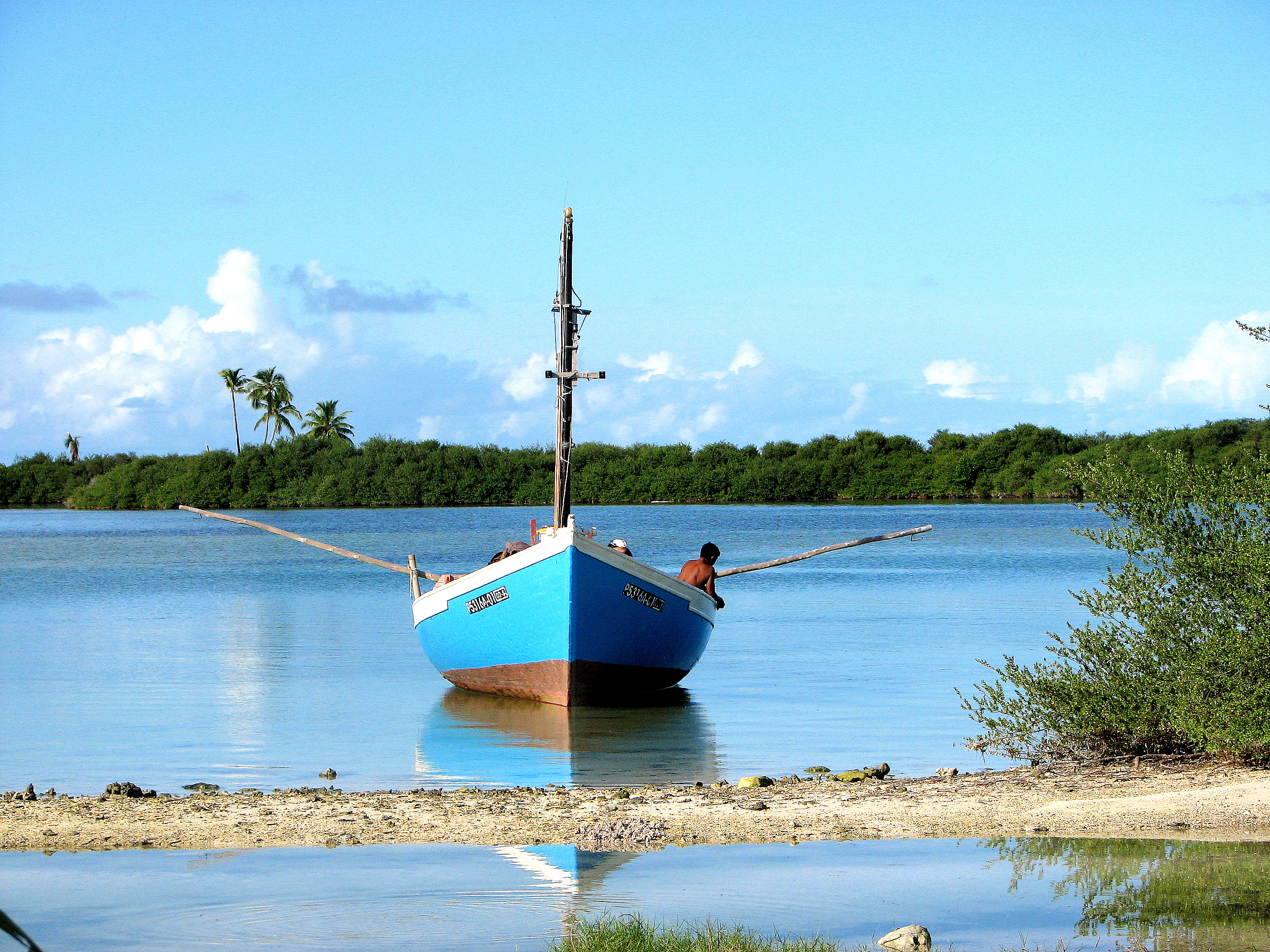 A bokkura in the Maldives